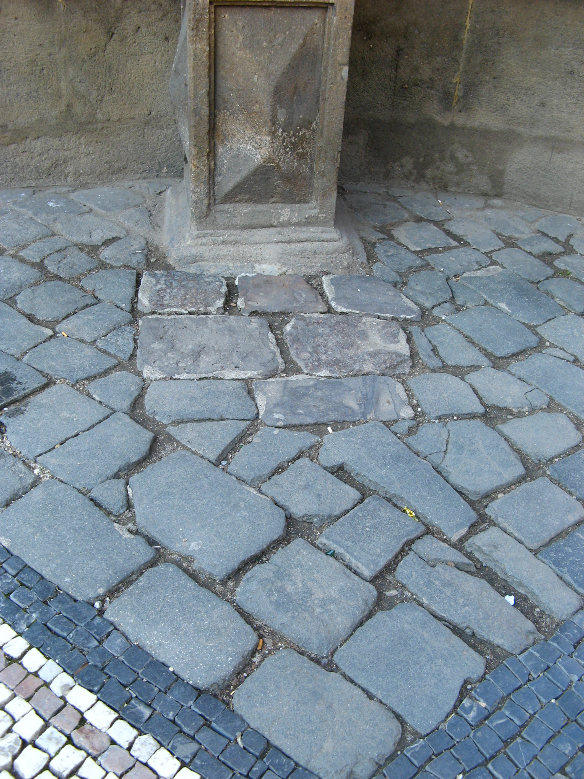 The oldest cobblestone in Prague nearby Charles Bridge.